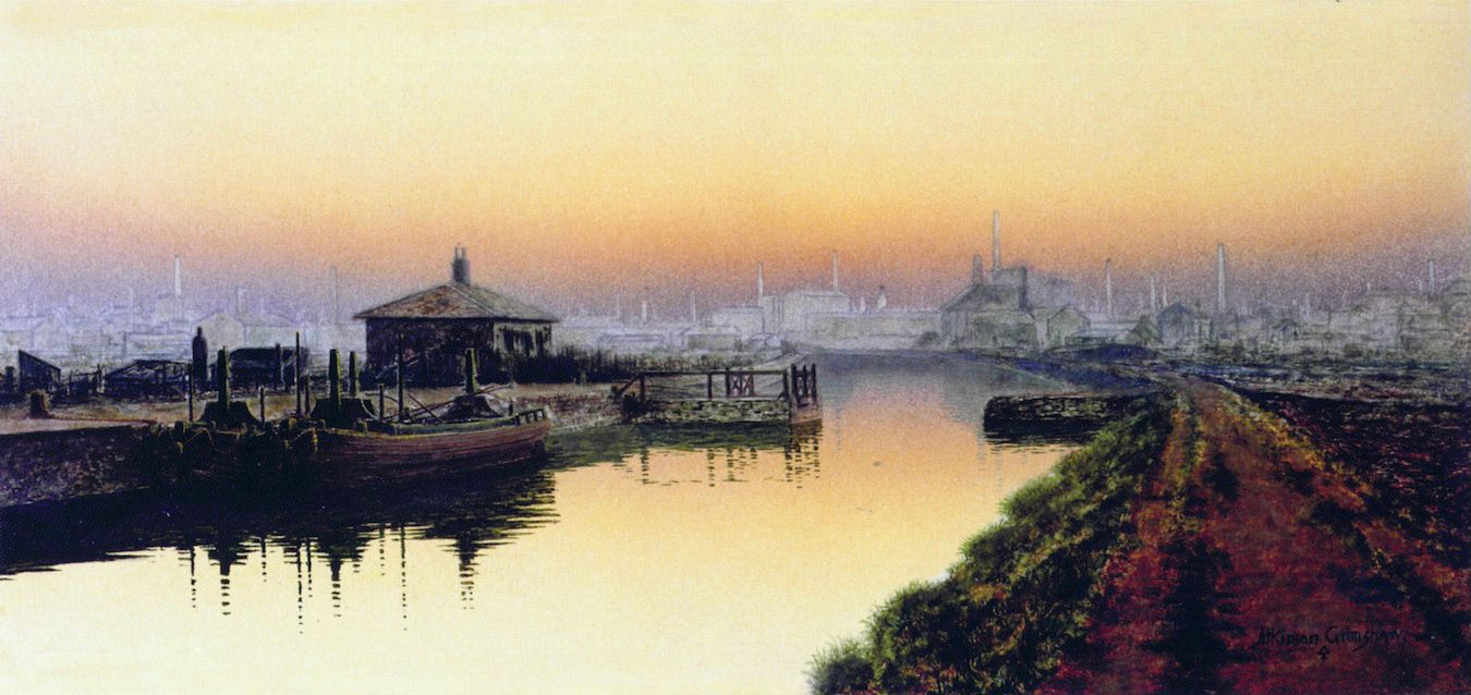 Knostrop Cut, Leeds, Sunday Night, 1893, by Atkinson Grimshaw